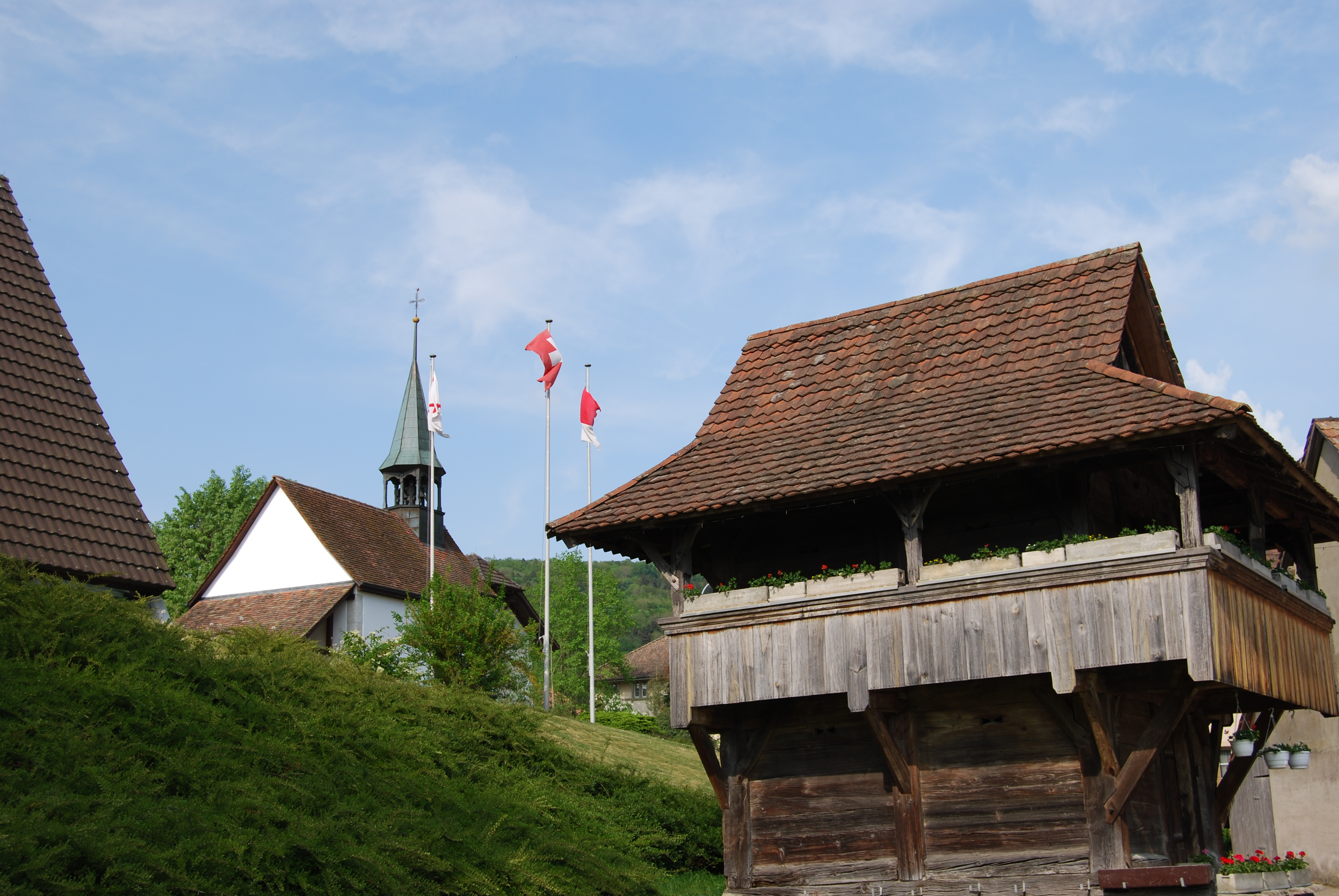 Chapel Mariahilf and storhouse Boningen, canton of Solothurn, Switzerland